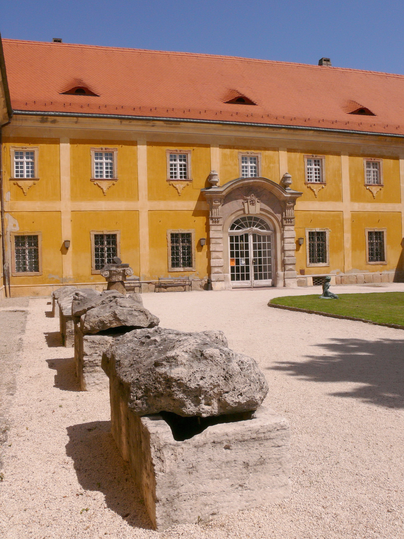 Facade of the Kiscell Castle, Budapest